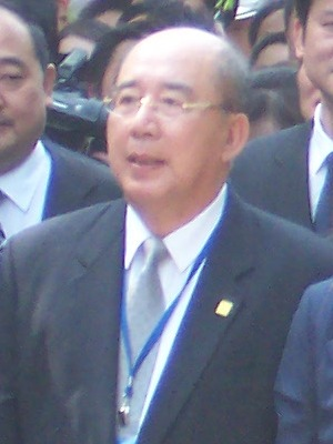 KMT Chairman Po-hsiung Wu.